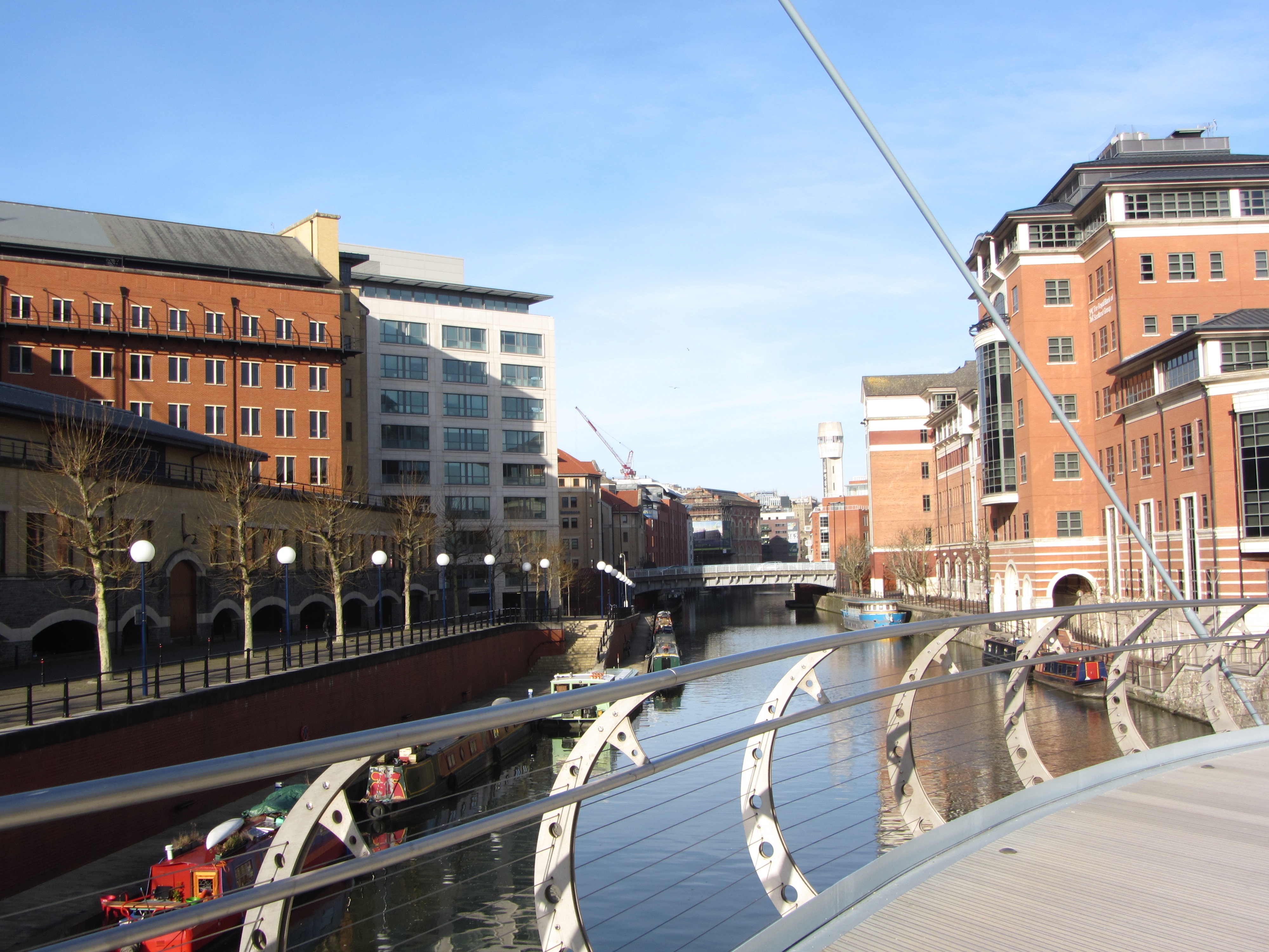 Sunny morning - Temple Quay - Feb 2012